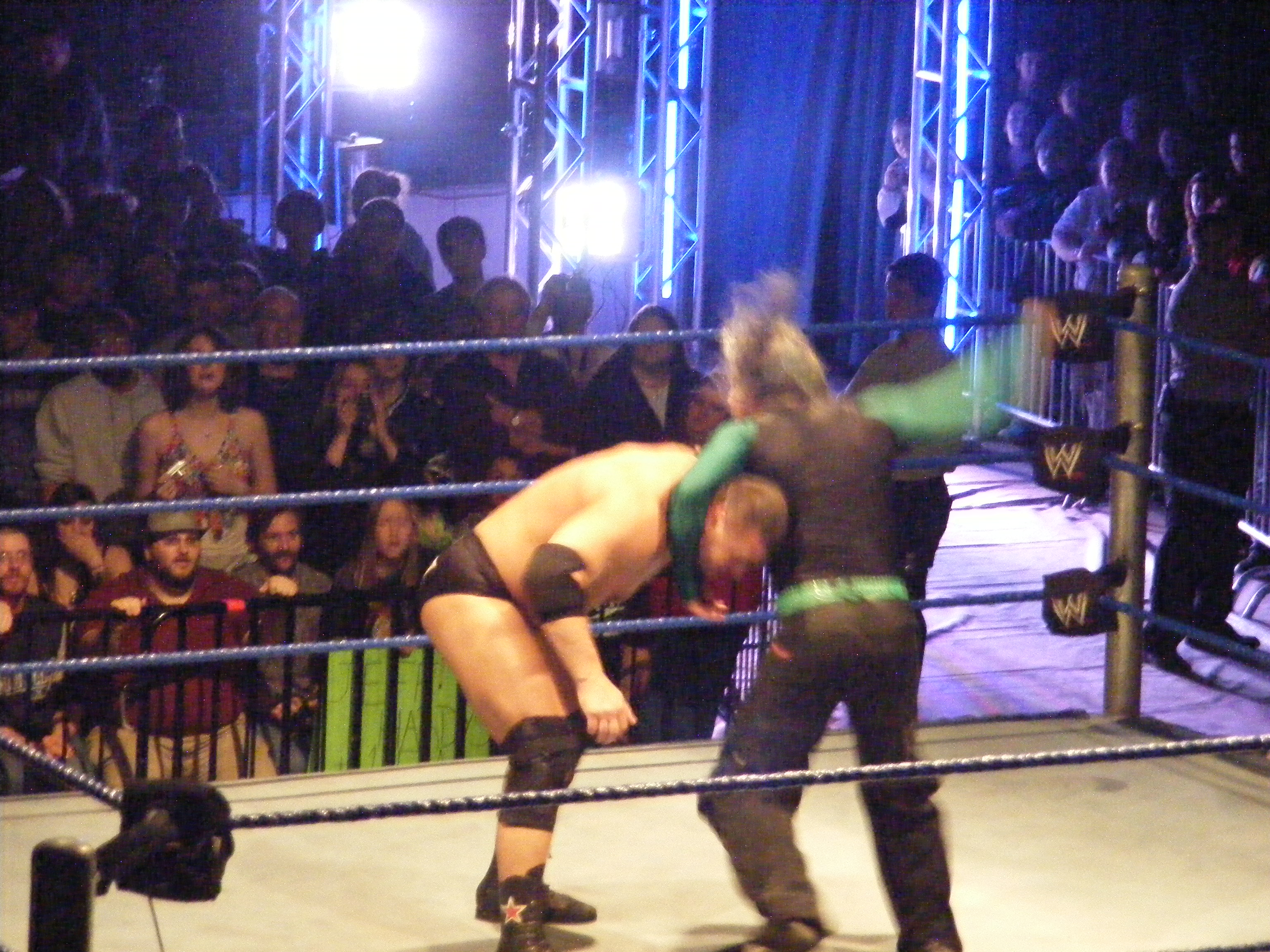 Professional wrestler Jeff Hardy perfomring a Twist of Fate at a WWE show in February 2009, in Burlington, Vermont.